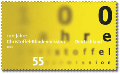 stamp, 100 jears of Christian Blind Mission Motiv:Andeutung eines Sehtests Ausgabepreis: 55 Cent